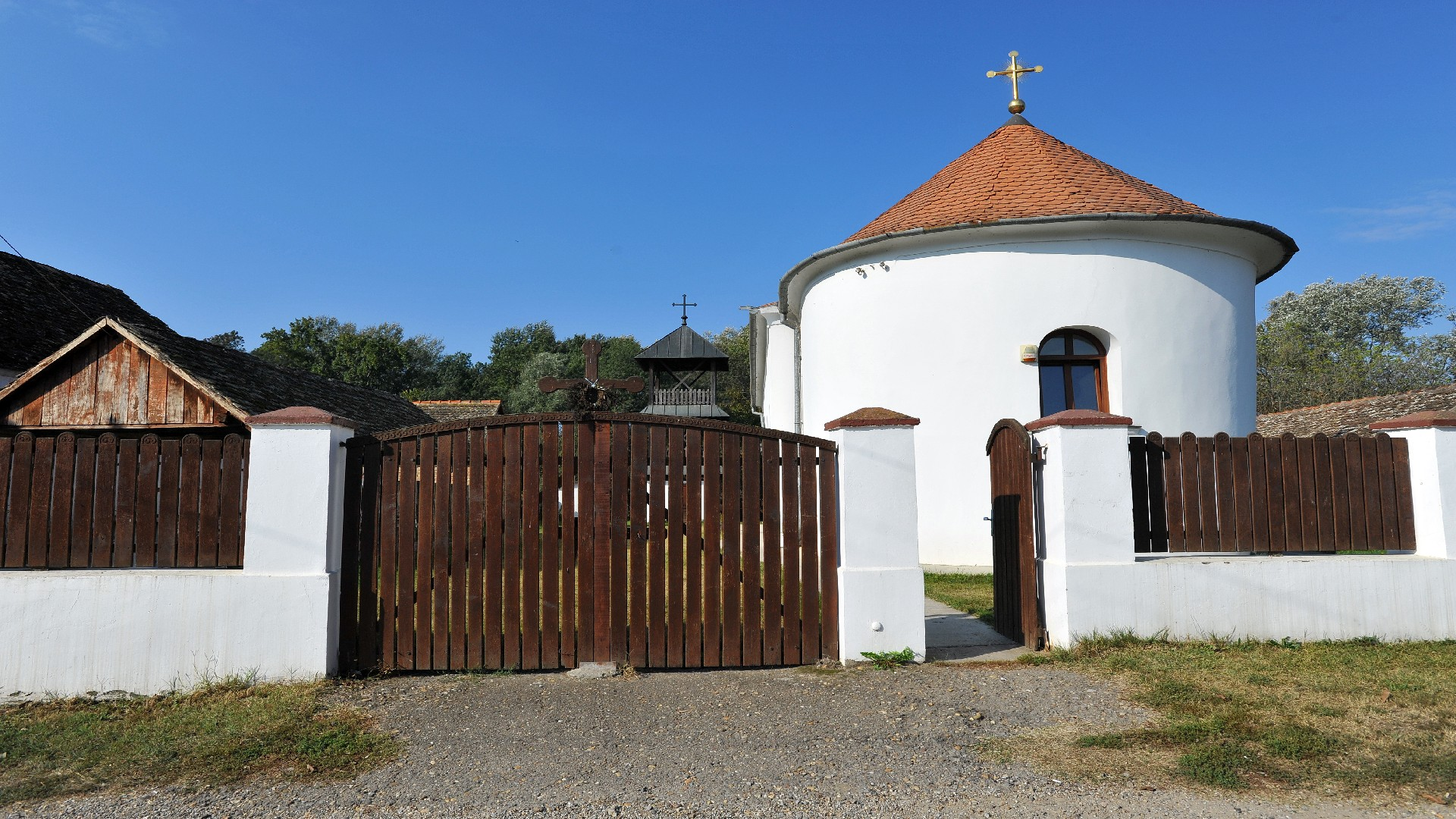 Church of Saint Luke in Kupinovo- entry gate